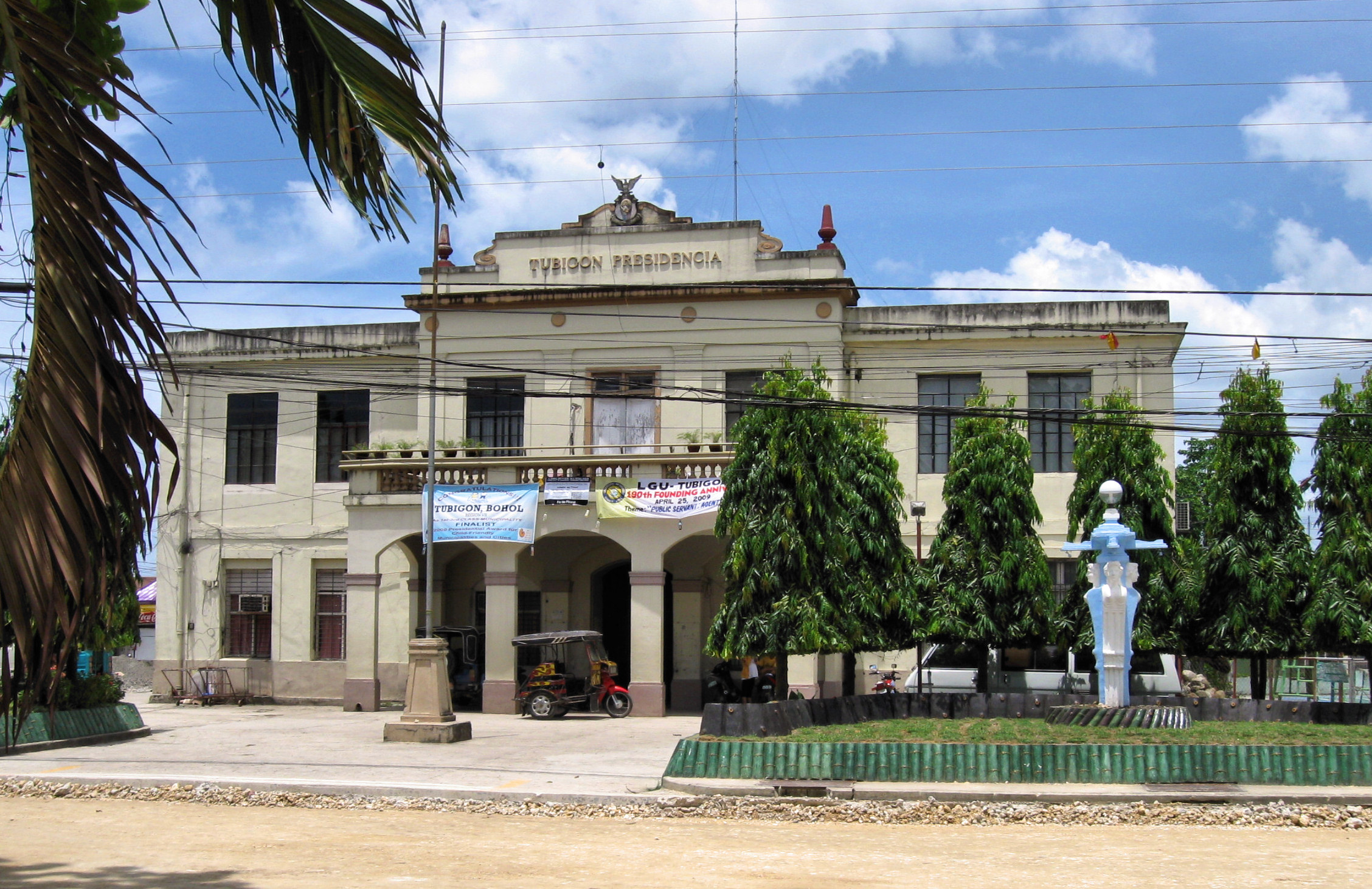 Municipal Hall of Tubigon, Bohol, Philippines